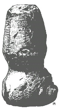 illustration of ogham stone